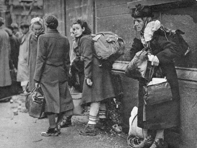 Factual corrections and alternative descriptions are encouraged separately from the original description. Additionally errors can be reported at this page to inform the Bundesarchiv. Original historic description: Aachen, Flüchtlinge Zentralbild II. Weltkrieg 1939 - 1945 Flüchtlinge verlassen das zerstörte Aachen, 23.10.1944. [Aus: The] Illustrated London News [vom 28.10.1944]. [Aachen.- Frauen mit Gepack auf der Flucht; [Fotograf von US-Signal Corps